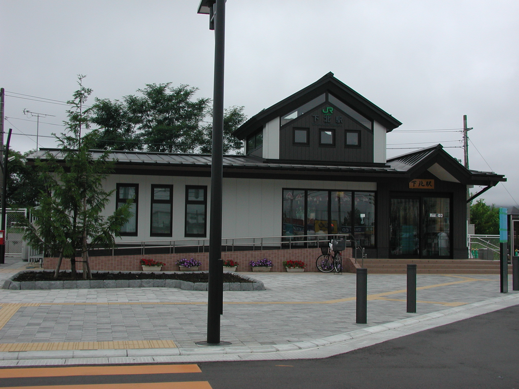 East Japan Railway Company：Shimokita Station on NEW-Stations